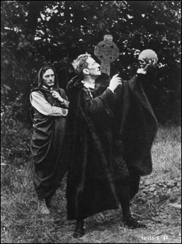 Stills Alas! Poor Yorick! 1913.